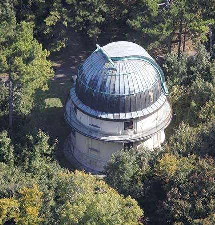 Konkoly Observatory, Hegyvidék, Budapest, district XII, Hungary, aerial photography